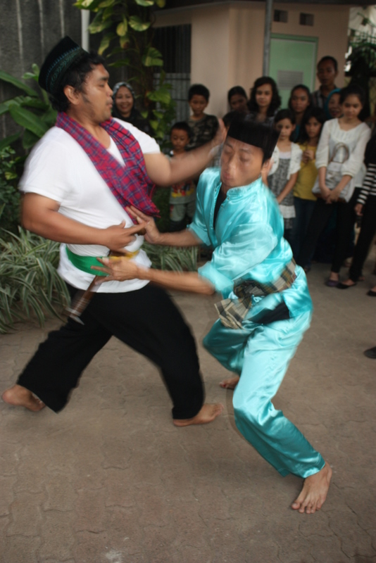 The traditional Pencak Silat of Betawi (Jakarta)